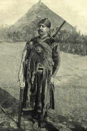 Ras Mengesha Yohannes (1868-1907), Eritrea, photograph by Luigi Naretti, from L'Illustrazione Italiana, Year XXII, No 1, January 6, 1895.